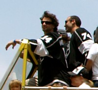 Justin Williams (left) and Dwight King (right) of the Los Angeles Kings at the Kings' 2012 Stanley Cup victory parade in downtown Los Angeles. This photograph was taken with an Olympus E-510 DSLR camera and edited (color balance, sharpness, crop, brightness and contrast) using ArcSoft Photostudio 5.5